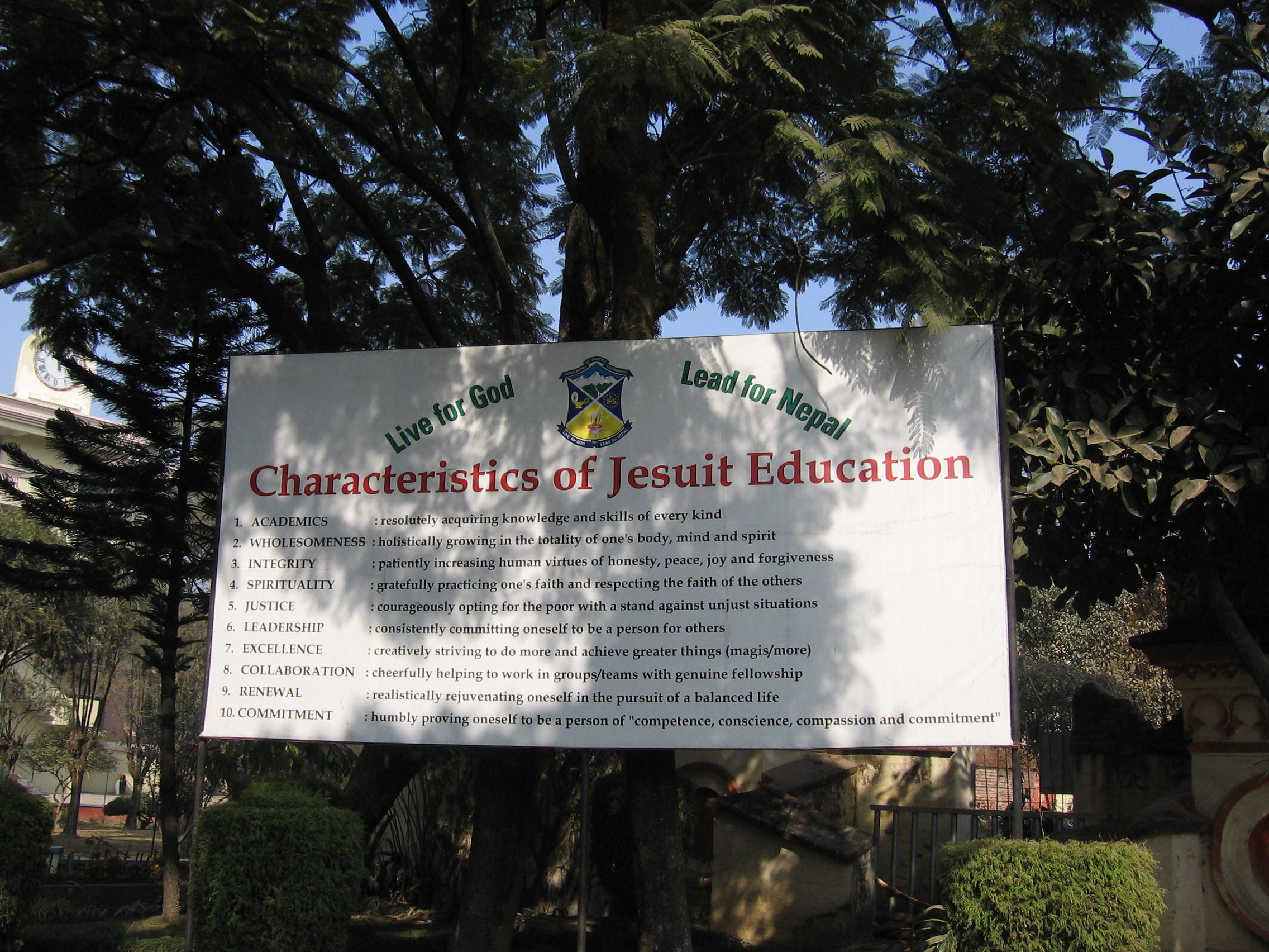 A board at the entrance of Jesuit school of Kathmandu: the principles of Jesuit Education